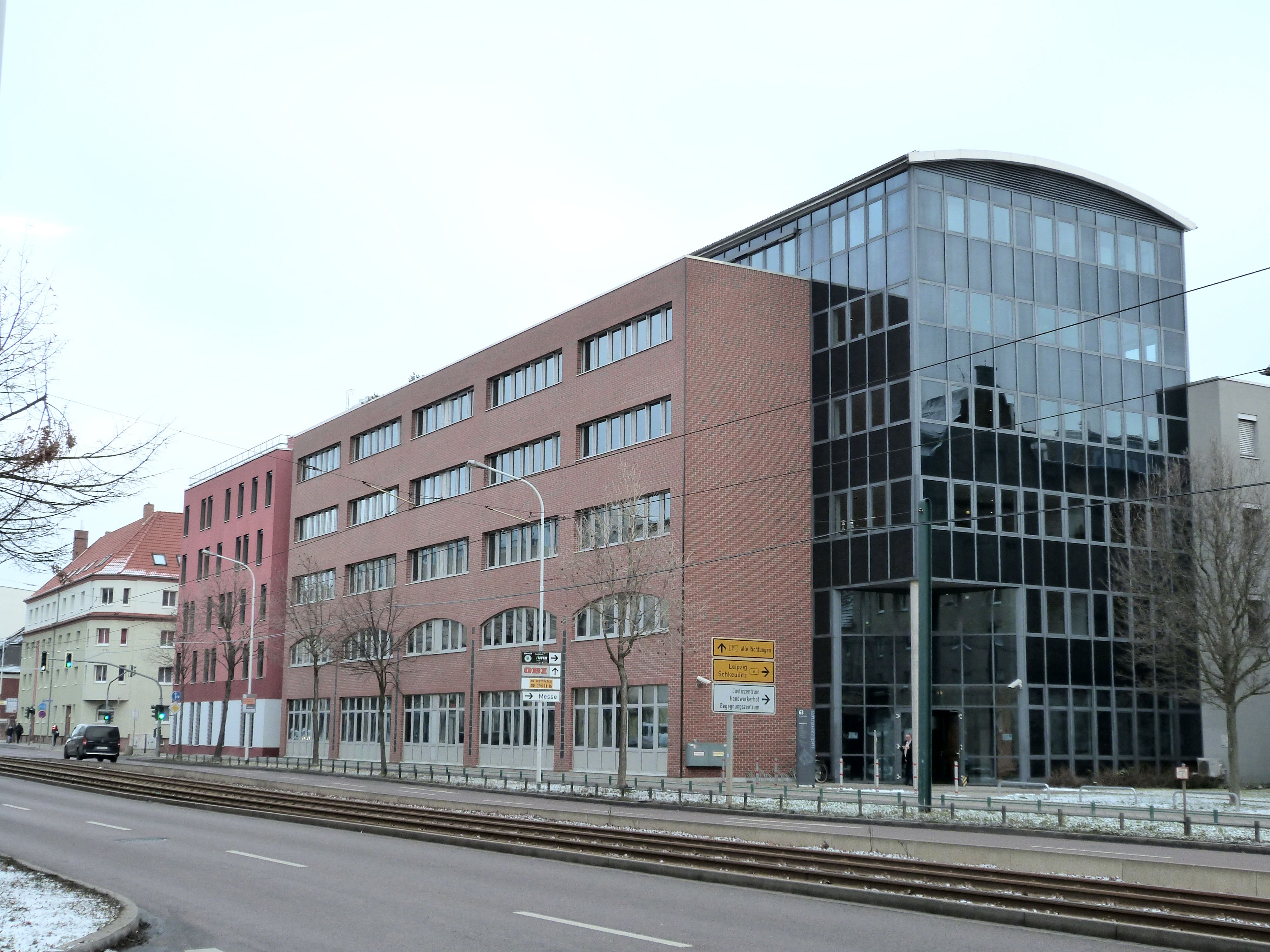 Justice center Halle, Merseburger Strasse 63, Entrance to the Prosecutor's office